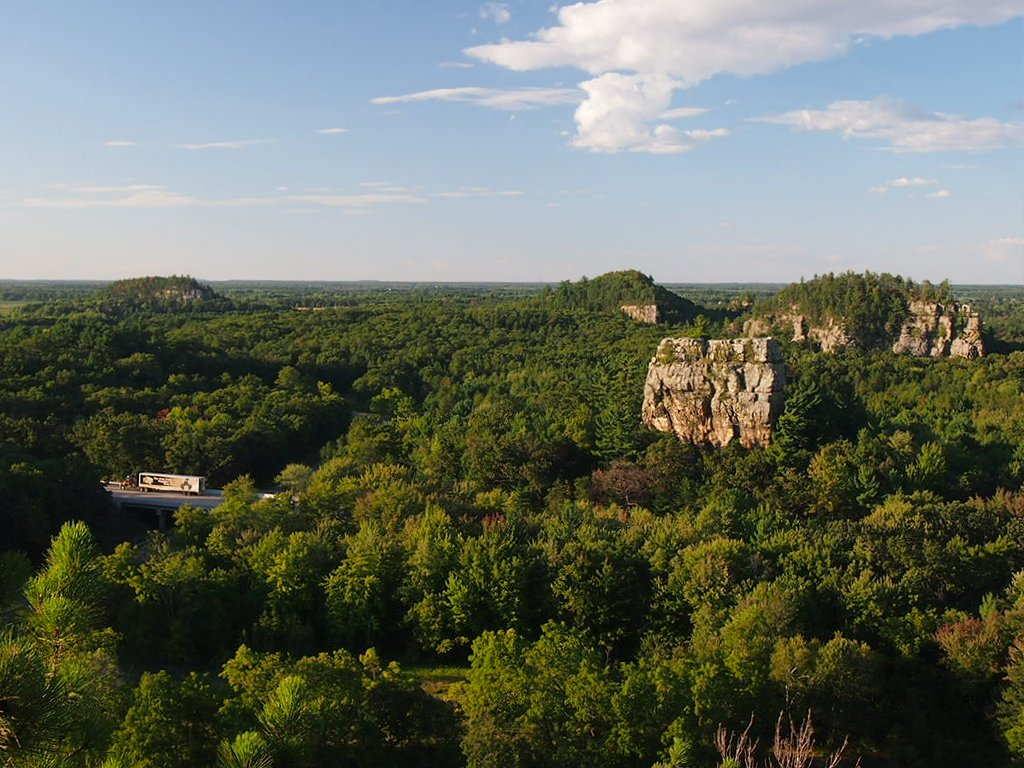 View north from Mill Bluff with Interstate 90/94 on left, Mill Bluff State Park, Wisconsin, USA